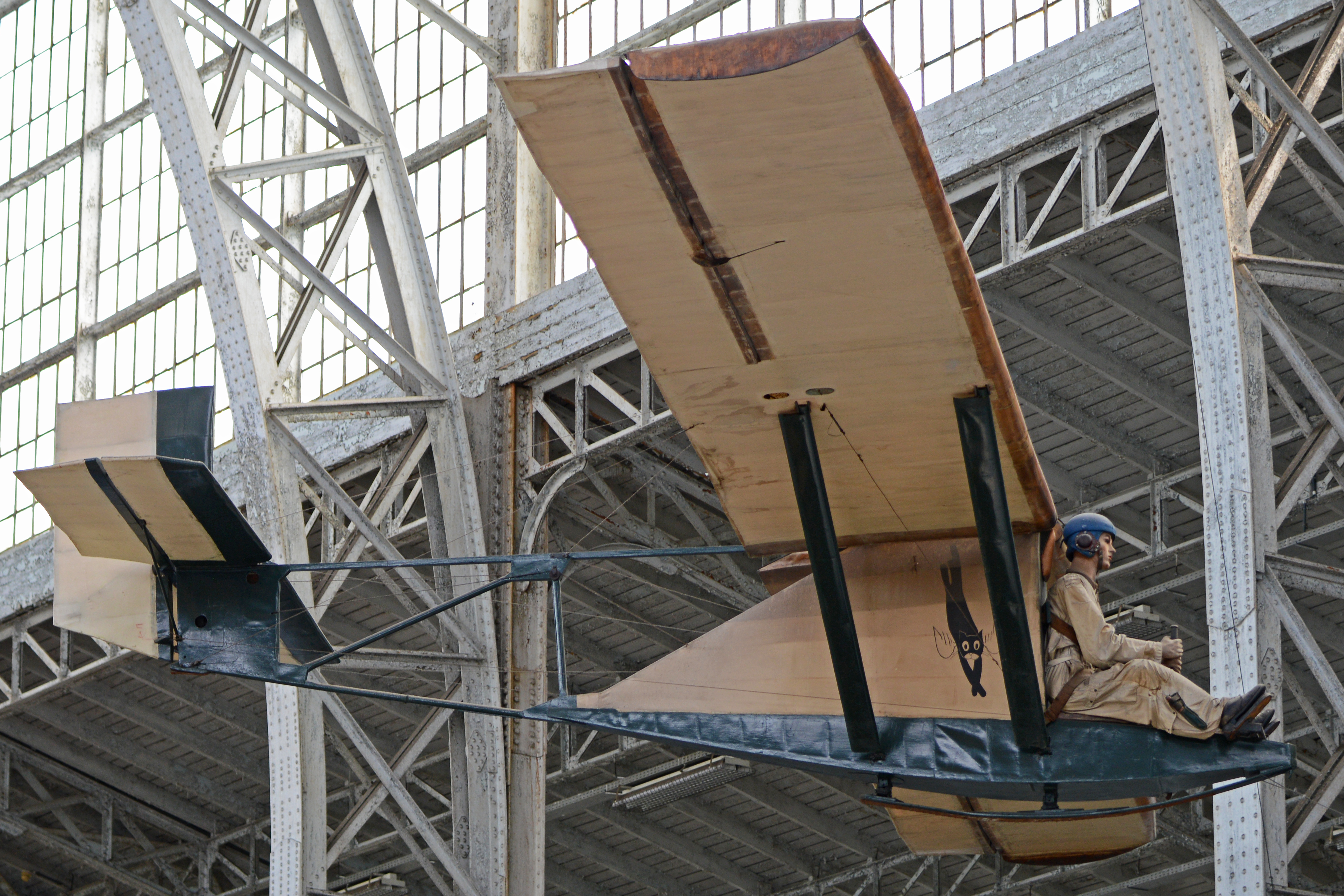 c/n 4. German single seat glider from the 1930s. On display at the Musee Royal de l'Armee et d'Histoire Militaire (usually known as the Brussels Air Museum), Brussels, Belgium. 26th June 2016